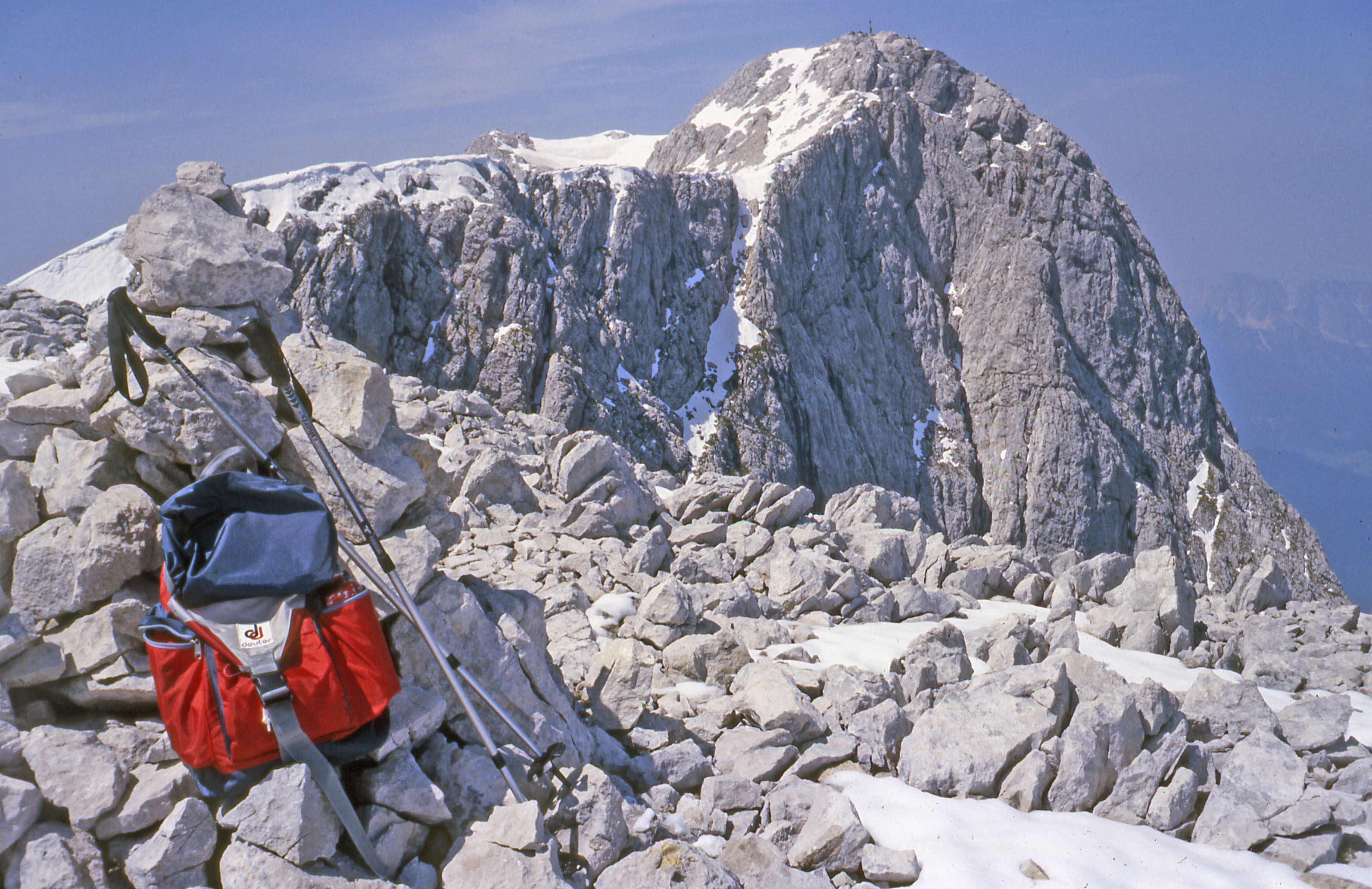 Hoher Göll Summit Southside